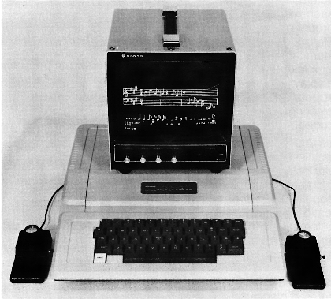 ALF Products' music Entry program running on an Apple II computer.